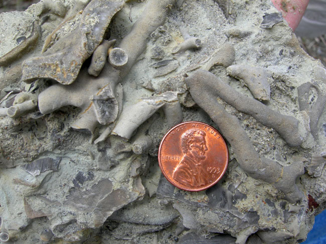 Ordovician bryozoans from Indiana.